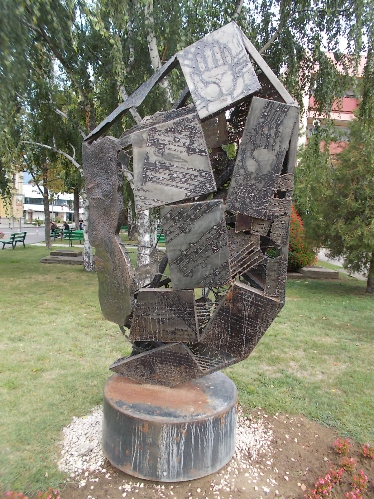 János Kisvárdai memorial by József Szurcsik (2014 Steel, three meteer high, welded)- Csillag Street, Kisvárda, Szabolcs-Szatmár-Bereg County, Hungary.